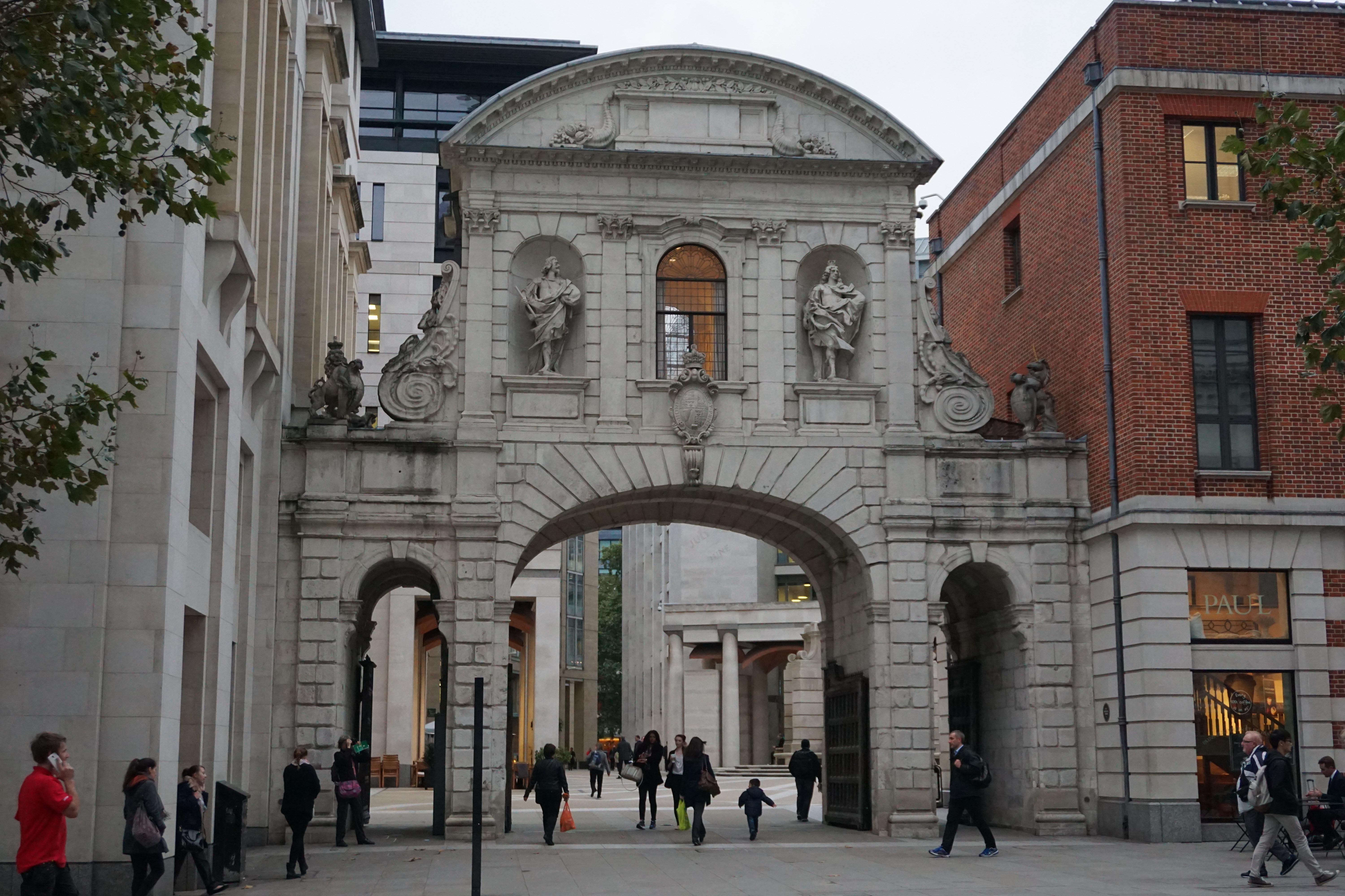 Temple Bar seen from St Paul's Cathedral